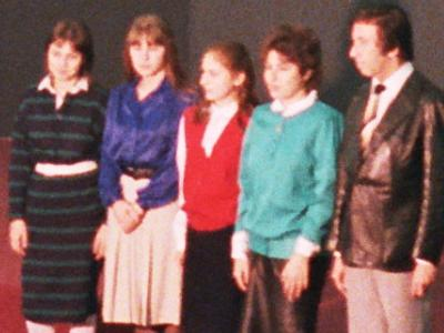 Olympic champion Hungary (Zsofia Polgar, Ildiko Madl, Judit und Zsuzsa Polgar), Chess Olympiad 1988 in Thessaloniki, Photographer Gerhard Hund.